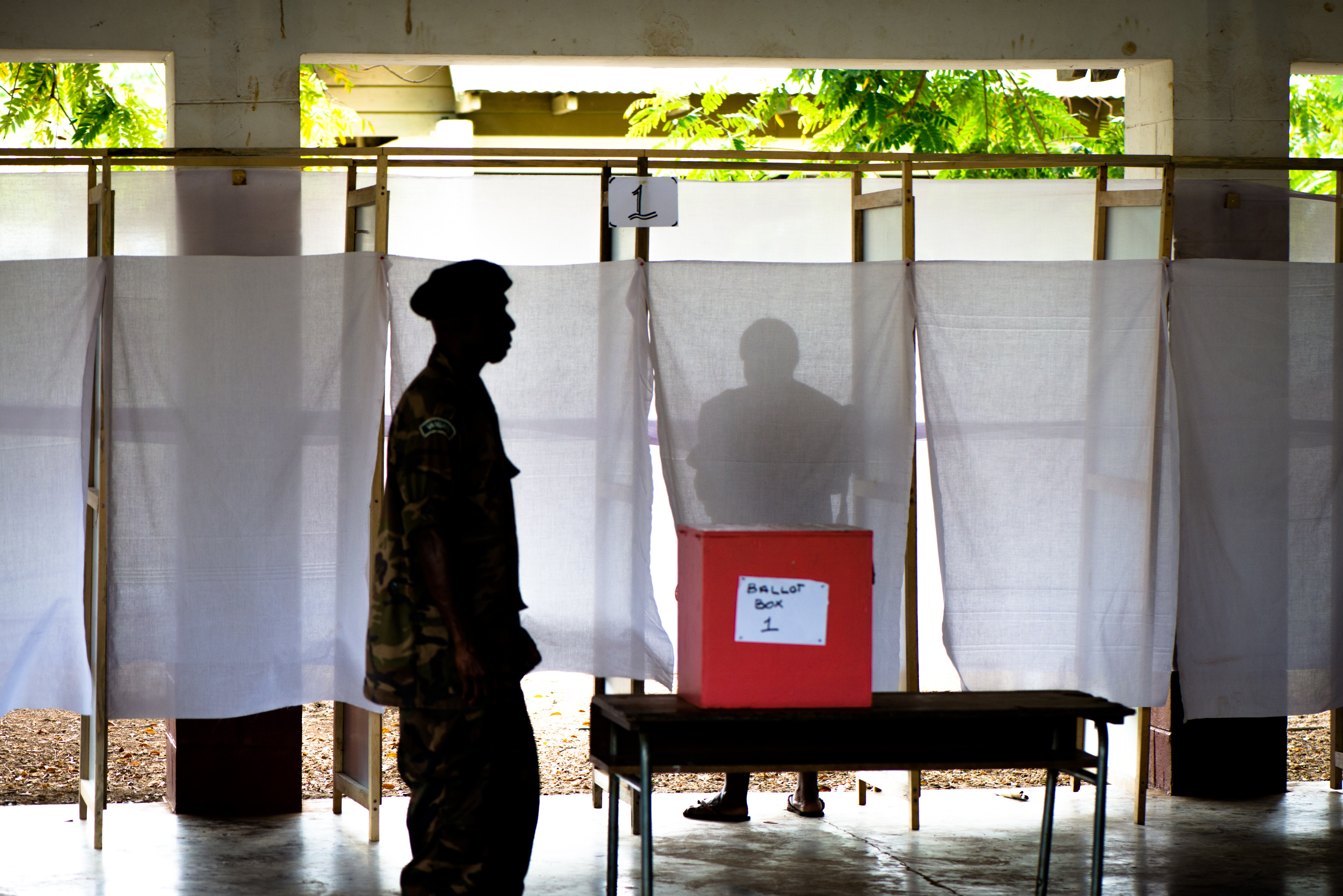 Some shots taken on polling day in Vanuatu's 2012 general election.